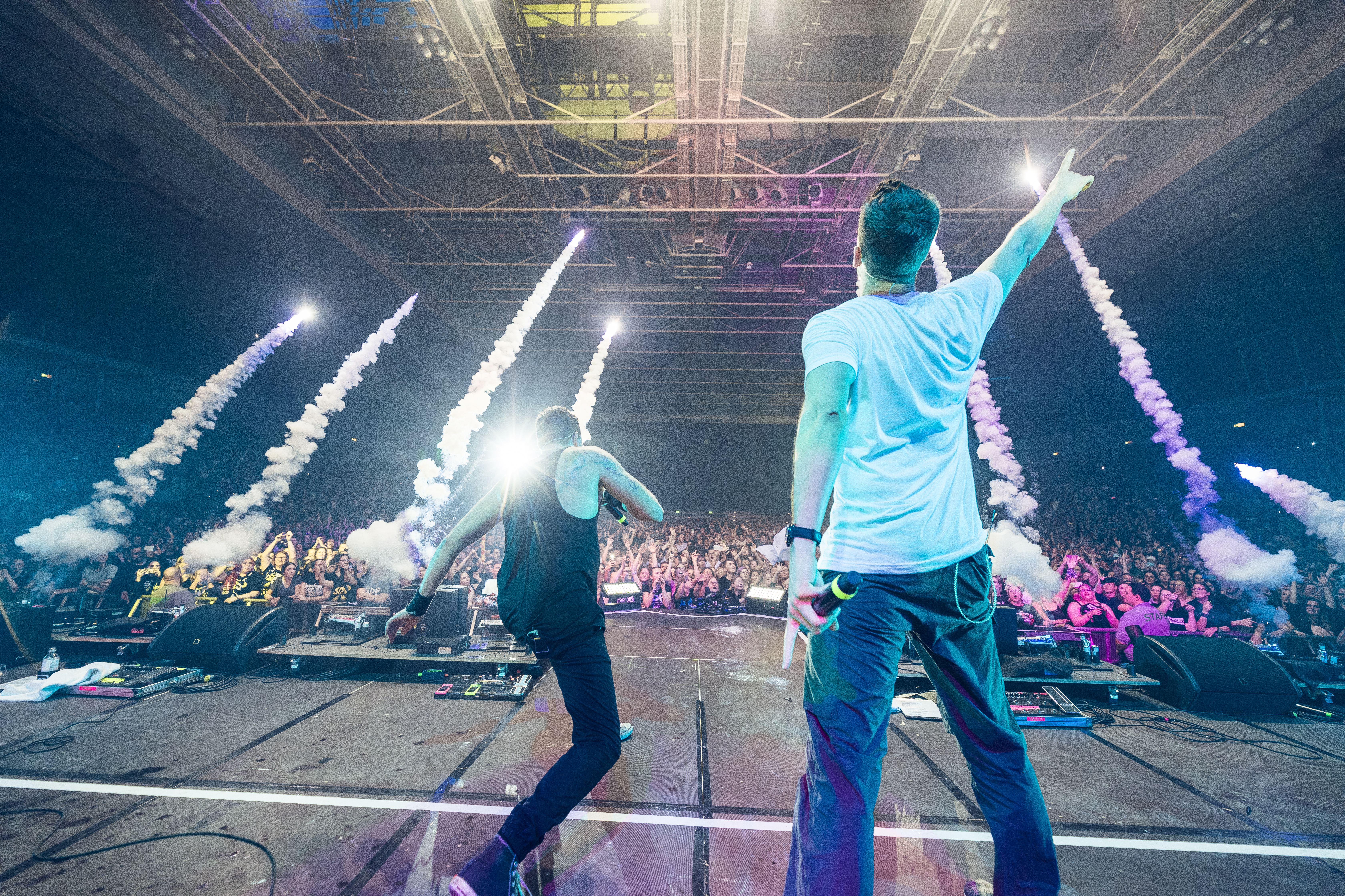 German pop band SDP at Hamburger Sporthalle, Hamburg, Germany